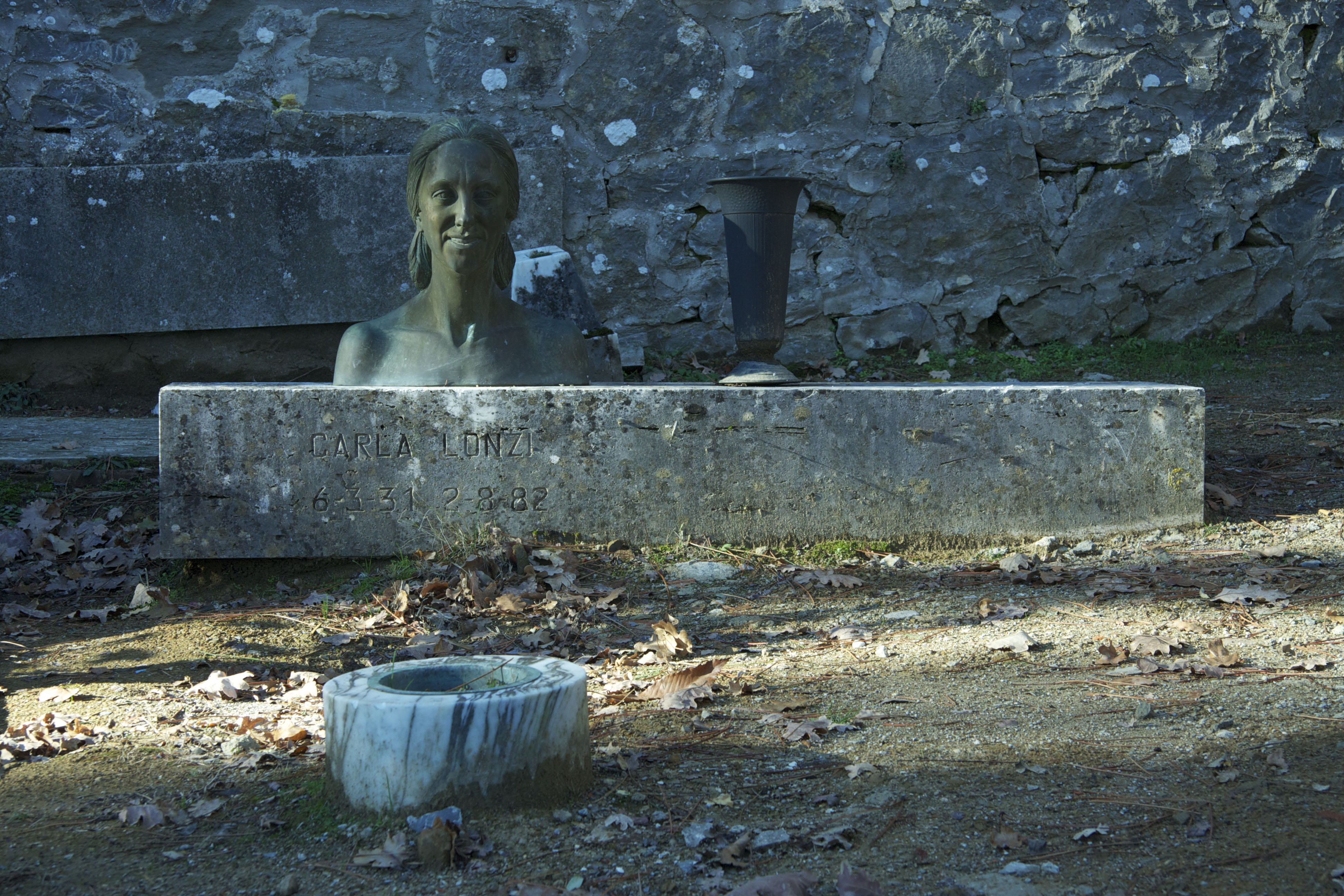 The tomb of Carla Lonzi, an italian writer and feminist